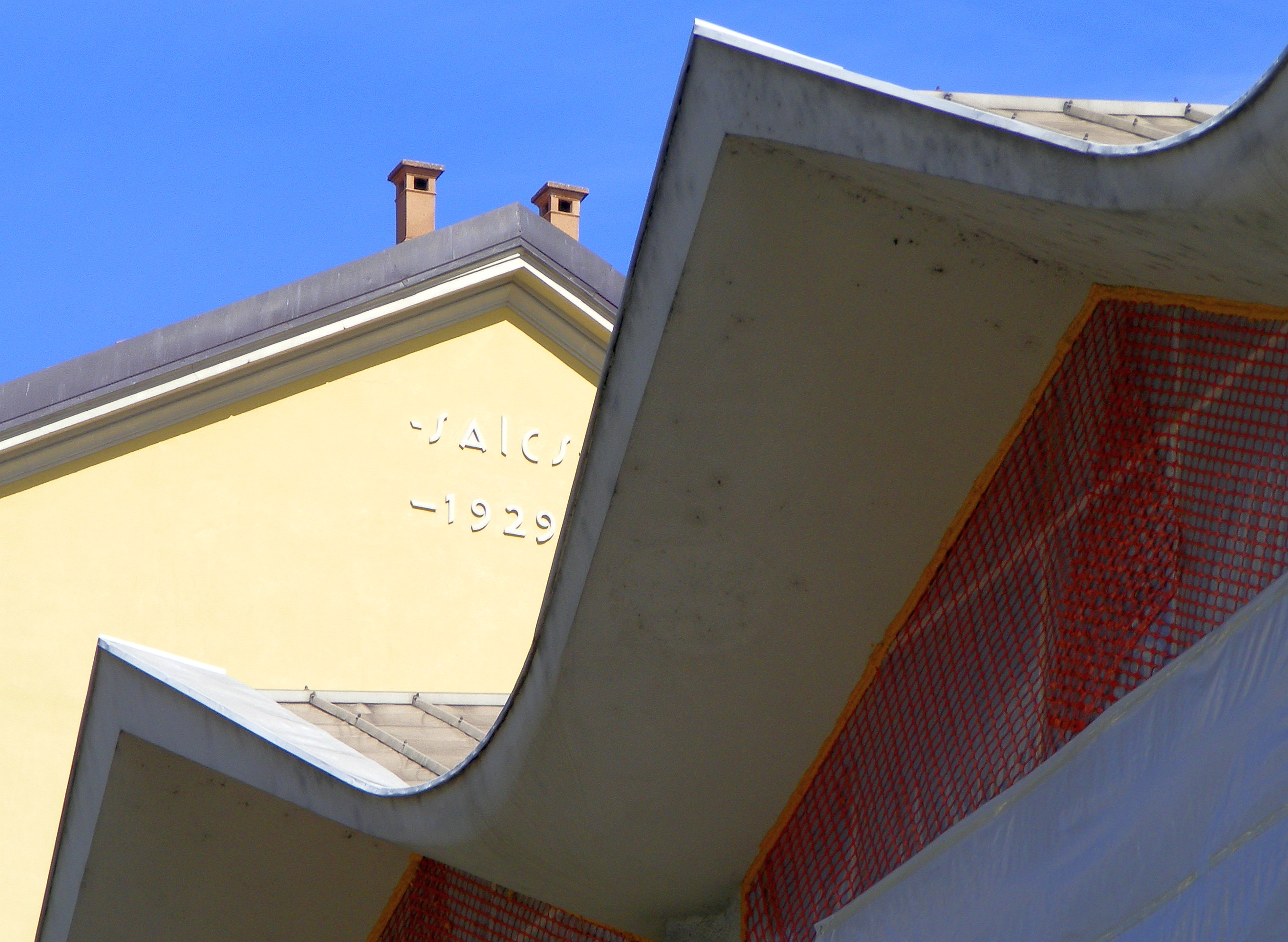 Turin Stock Exchange palace (designed dby Gabetti & Isola): roof detail